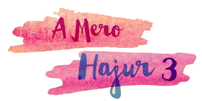 A Mero Hajur 3's logo.